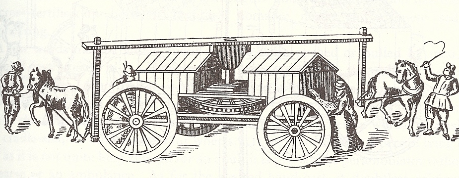 Targone's field mill from Vittorio Zonca's engineering treatise of 1607, showing two wagon-mounted mills worked by a horse-whim and gearing while stationary in camp. It was invented in Europe by Pompeo Targone in 1580, a man who was greatly involved in the Siege of La Rochelle during the Huguenot wars. It was featured in the Chinese book Qiqi Tushuo of 1627, which was a dual work of Johann Schreck and Wang Zheng. Ironically, the vehicle's concept was invented earlier in China during the Later Zhao (319–351) period, but was forgotton in China by the time that either books were published.